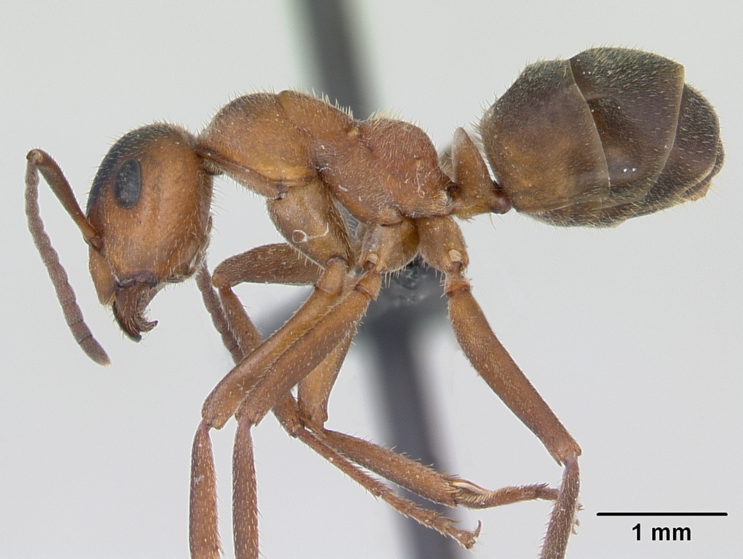 Profile view of ant Formica truncorum specimen casent0173144.